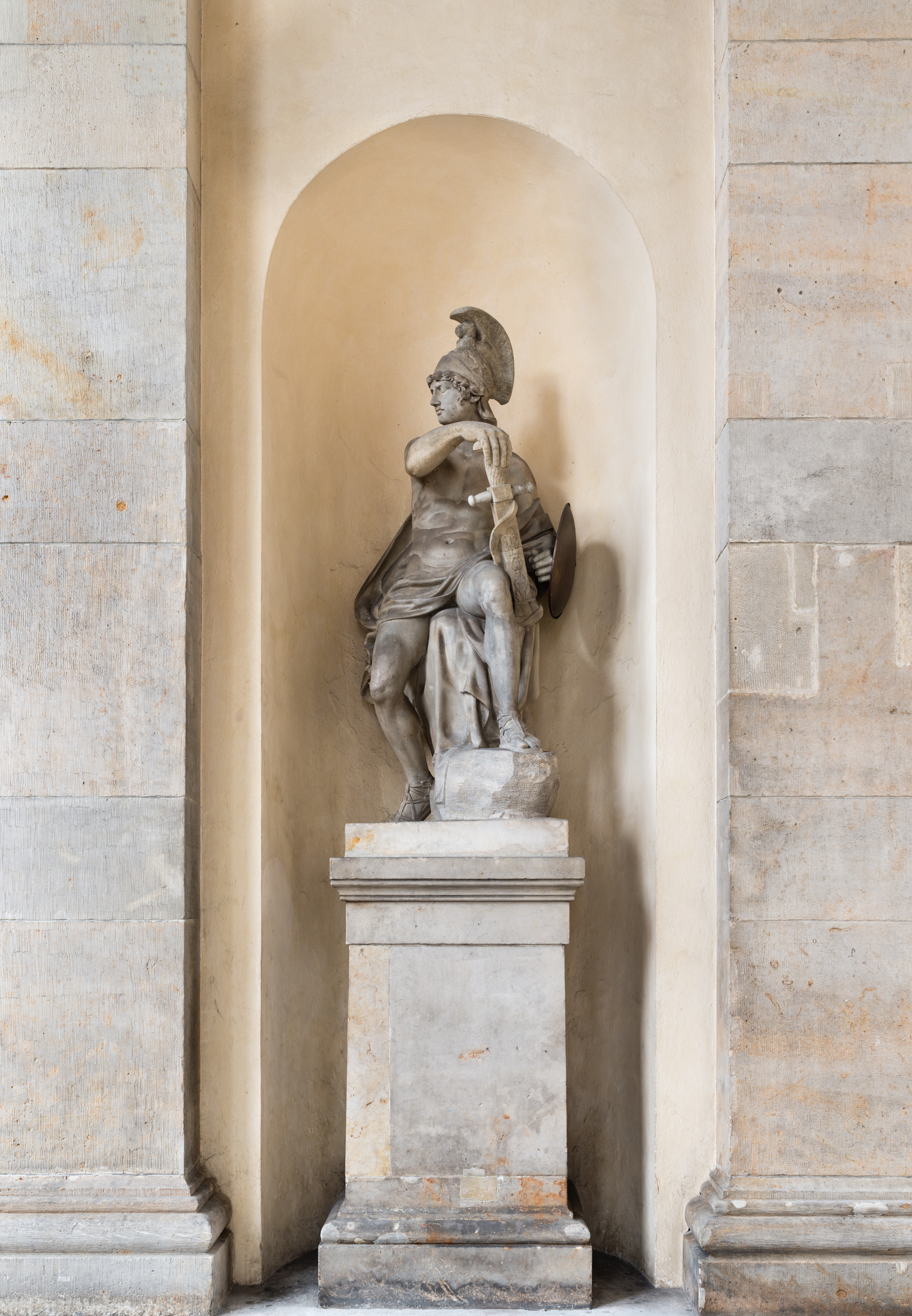 Mars statue, Brandenburg Gate, Berlin, Germany.